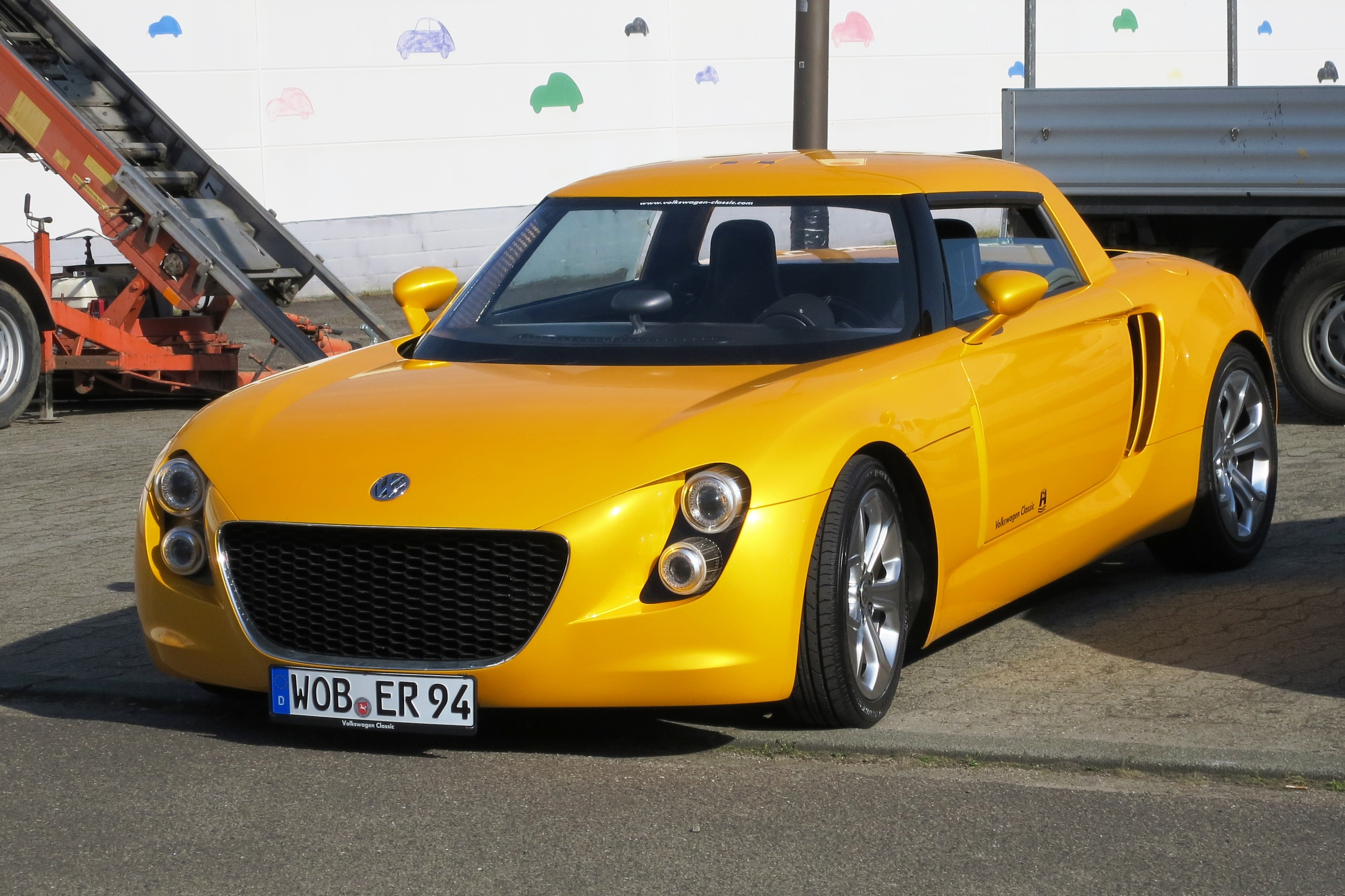 Volkswagen EcoRacer spotted out of doors